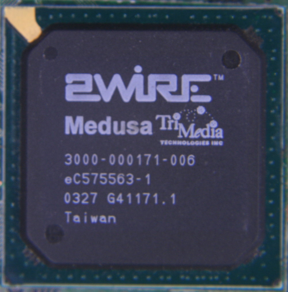 IC photo